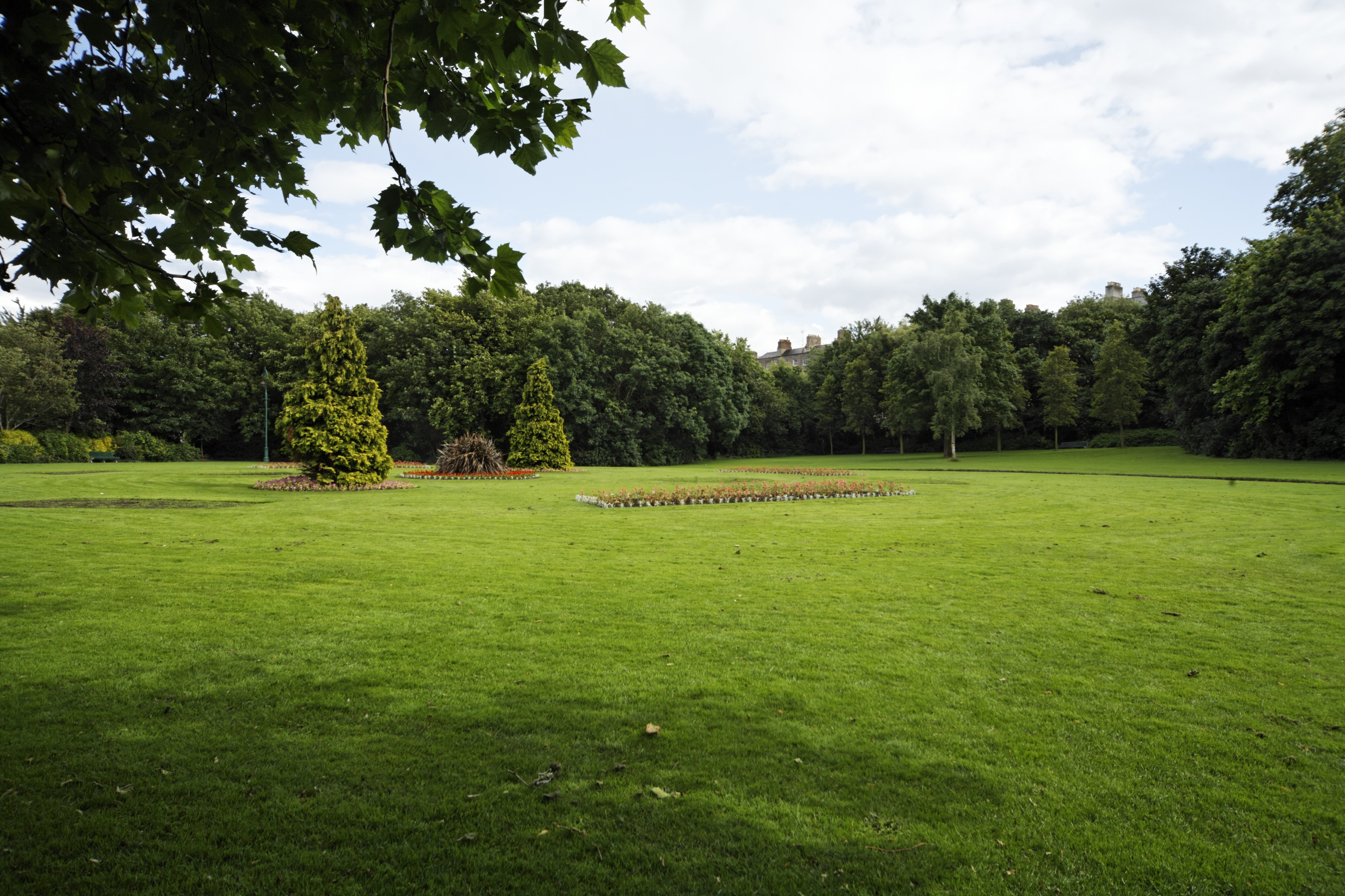 Merrion Square, Dublin